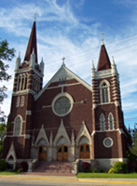 Cathedral of Mary of the Assumption, Saginaw, Michigan